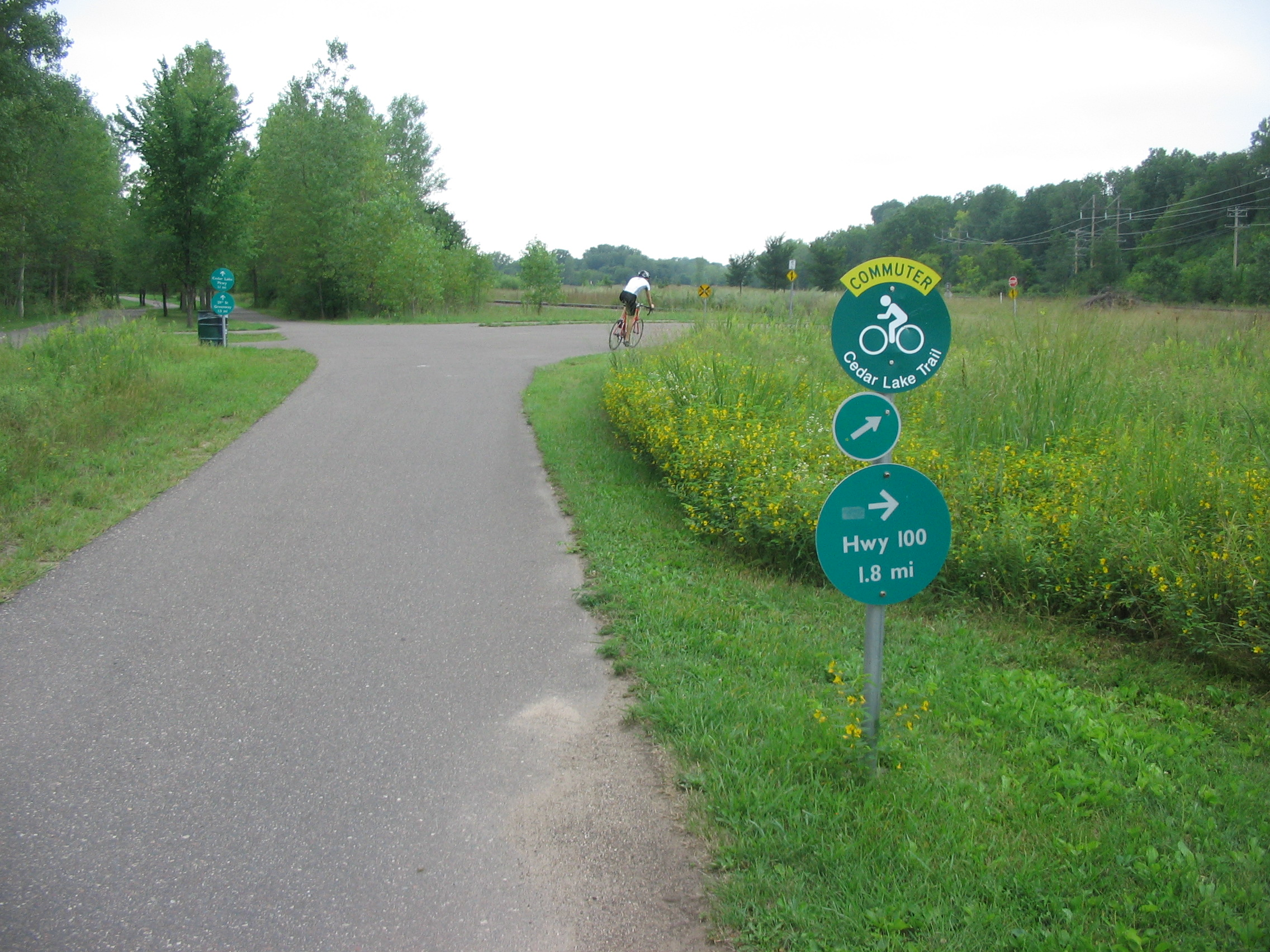 Cedar Lake Trail, at its junction with the Kenilworth Trail, Minneapolis